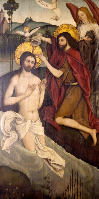 Nothing is known about the early history of the work, which arrived in the Cariplo Collection with its incorporation of the IBI Collection. It was published in the catalogue of 1998 and attributed to Bartholomaeus Zeitblom, a Swabian artist active in southern Germany in the late 15th and early 16th century. The attribution proves acceptable. The author is an interesting artist who marked the period of transition from a still Gothic to an early Renaissance style displaying greater attention to the anatomical definition of the figures and less sharply etched profiles. Albeit within a particular compositional approach, this shows such similarities with the vocabulary of Flemish art and Italian Humanism as to prompt the 19th-century writer Justinus Kerner to describe Zeitblom as a “German Leonardo”. It is in fact possible to argue that the painter paved the way for the German Renaissance and in some respects for the achievements of Dürer and Grünewald. The description by Alessandro Rovetta points out the close links with important works by the painter such as the altarpieces of Eschach and Heerberg in the Staatsgalerie, Stuttgart [1], and the panels in the Louvre. This evidence suggests that the depiction of the Baptism was painted in the closing years of the 15th century. The work has lost its possibly arched upper section, which is thought to have contained an image of God the Father on the basis of a scroll with the surviving letters PLACUI, interpreted as the ending of the last word of the citation Hic est Filius meus dilectus, in quo mihi complacui (“This is my beloved son, in whom I am well pleased”, Matthew 3, 17).